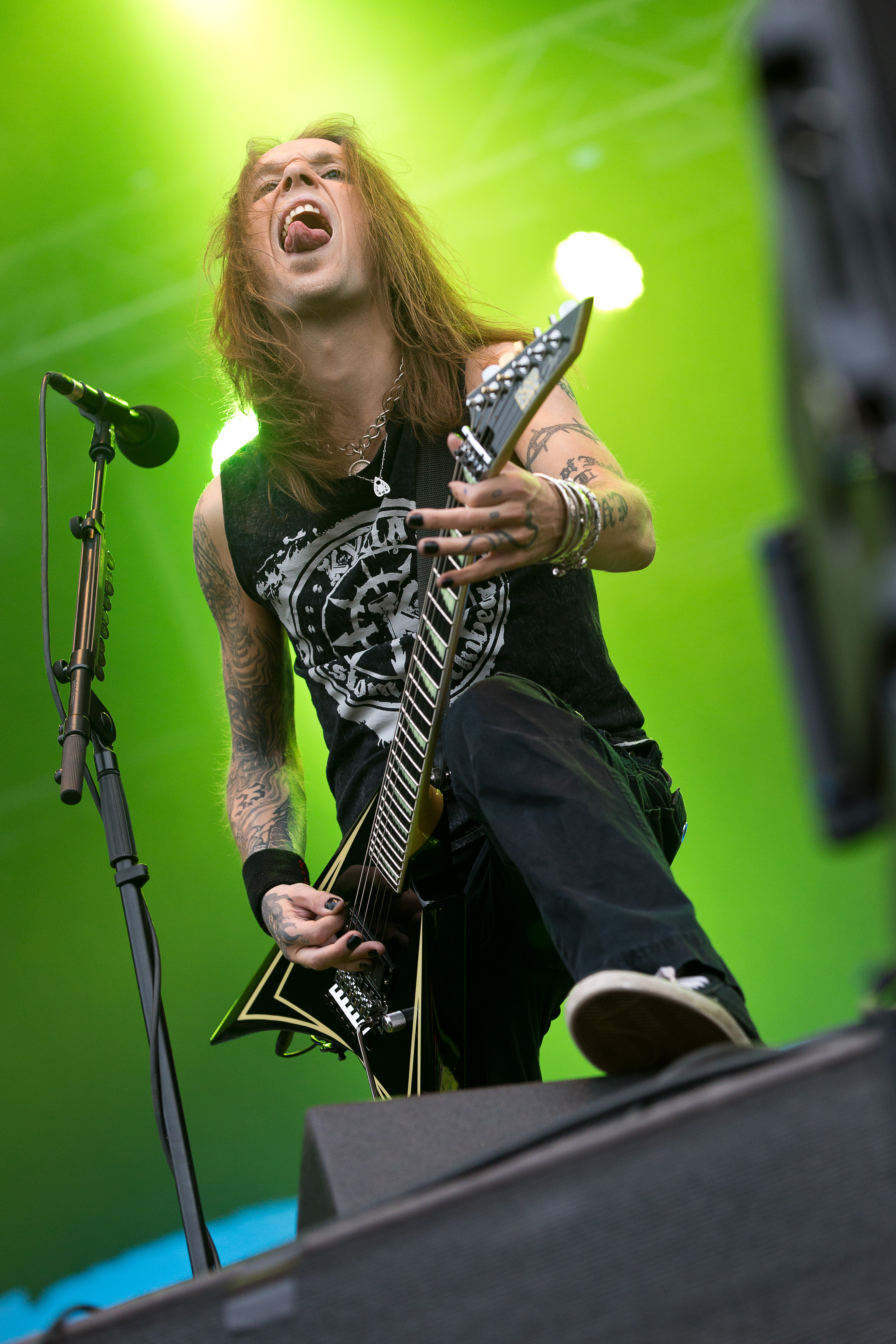 The Finnish melodic death metal band Children of Bodom at the Rockharz Open Air 2016 in Ballenstedt/Germany.